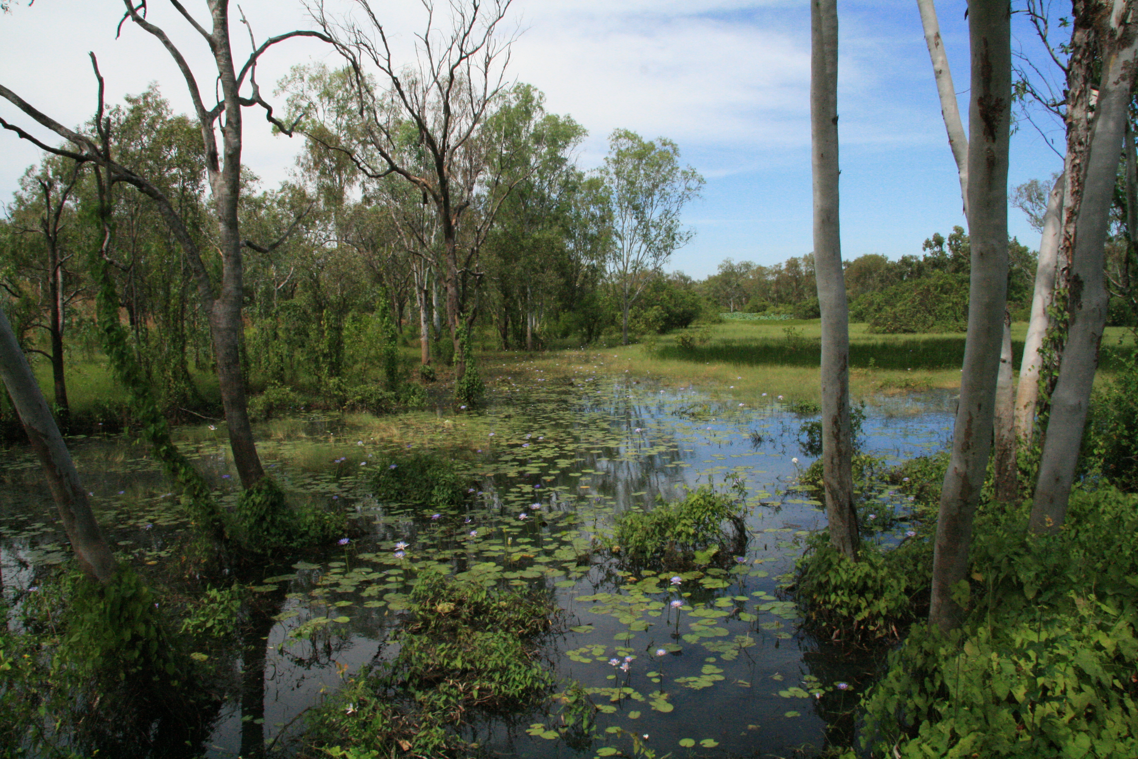 Daly River